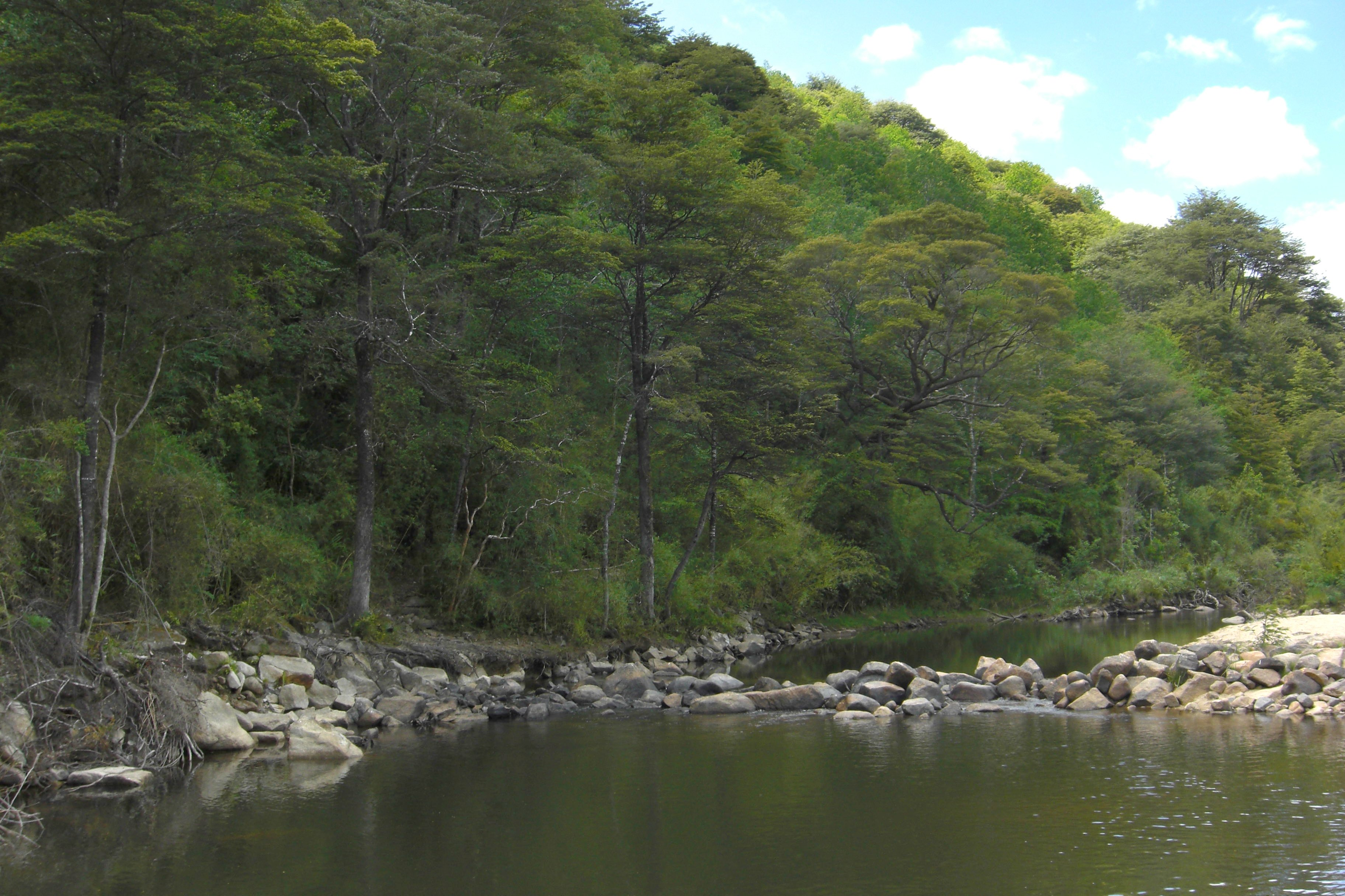 Los Ruiles Nature Reserve — located in the easternmost part of the Province of Cauquenes, Maule Region, Chile. It lies in the foothills of the Cordillera de la Costa (Chilean Coast Range). " Doesn't that line of forest look lush and inviting? I'm still not quite sure why I only spent half a day here. This is one of the few places with fully-intact forest along the central coast of Chile. Best part is you'll have the whole place to yourself... because it seems no one else gives a damn about native forest in this obscenely-over-forested region of Chile... Oops, did I say that out loud?"